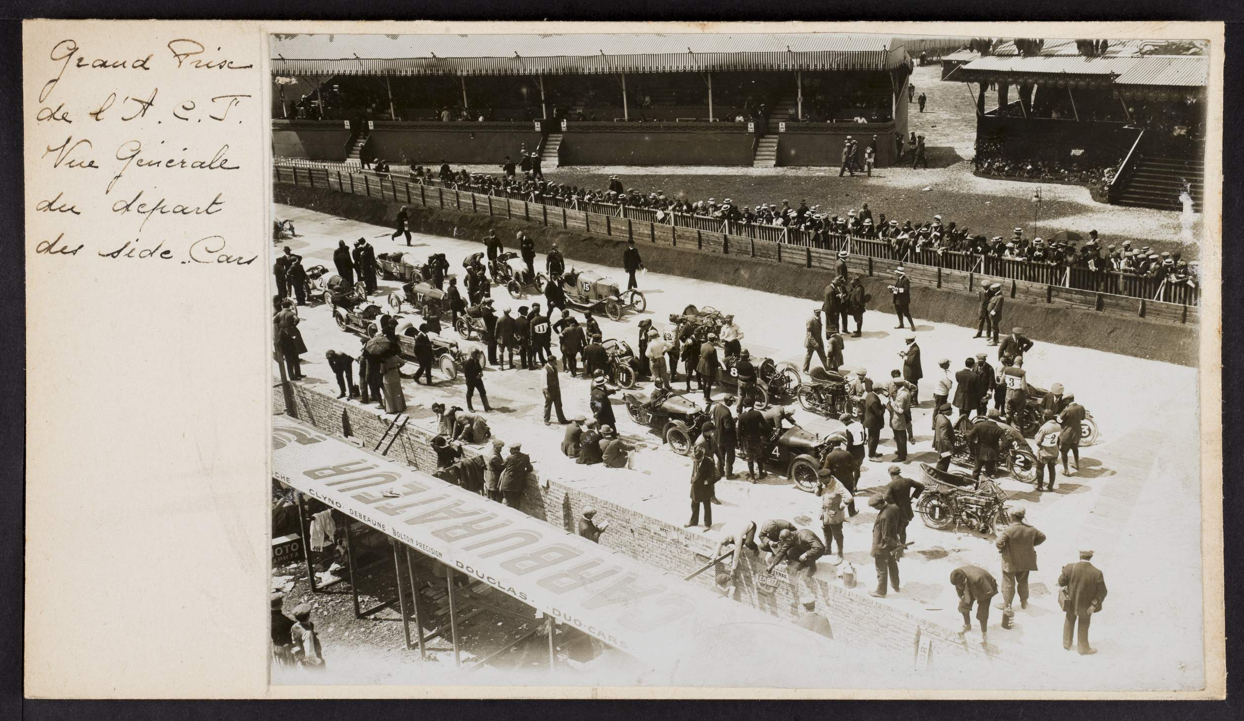 Grand prix de l'A.C.F. Vue générale du départ des side-cars.